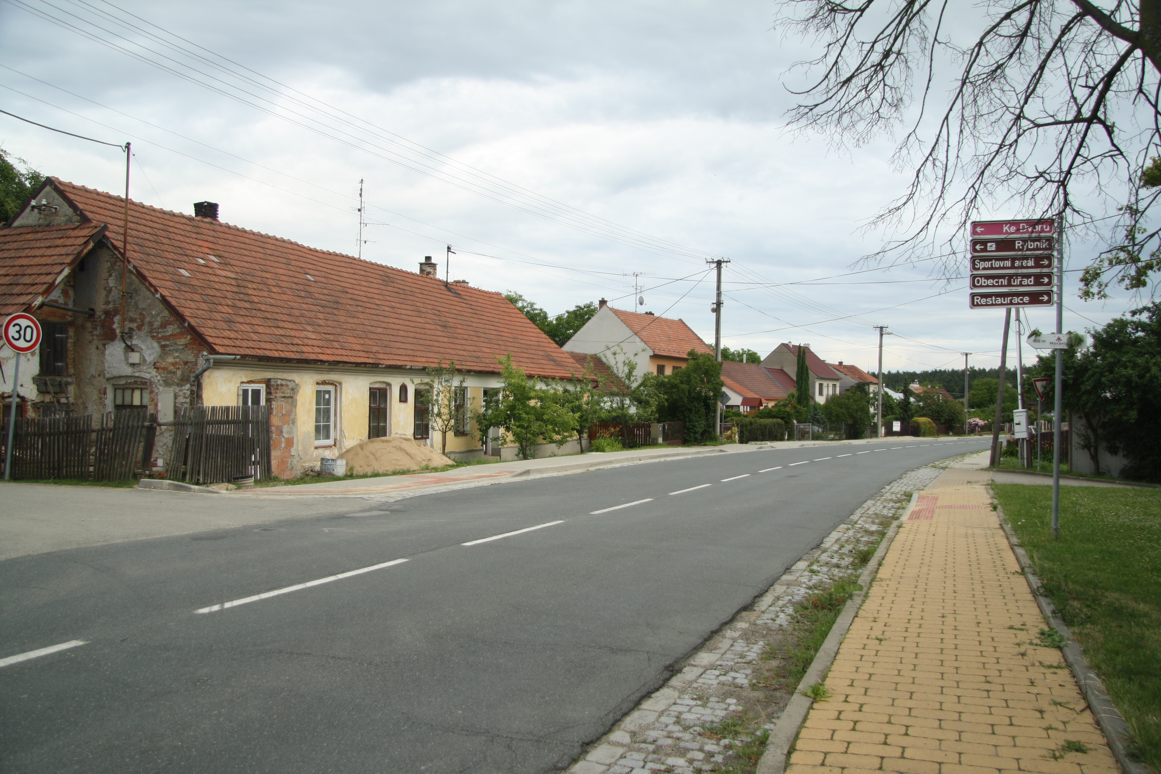 Center of Říčky, Brno-Country District.